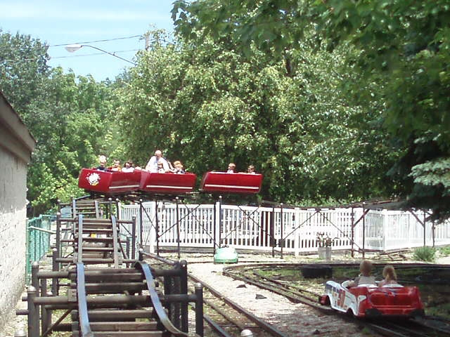 Oldest standing steel coaster in North America